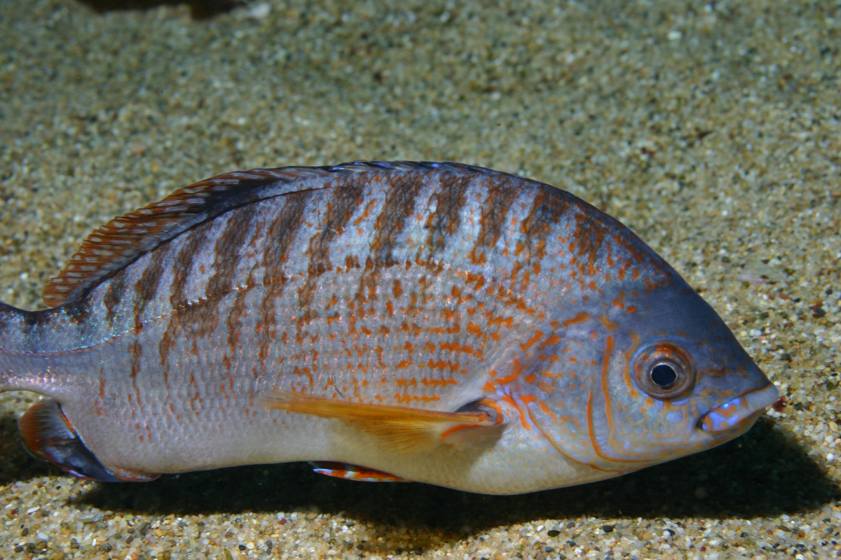 Rainbow Perch (Hypsurus caryi). Courtesy of Monterey Bay Aquarium.